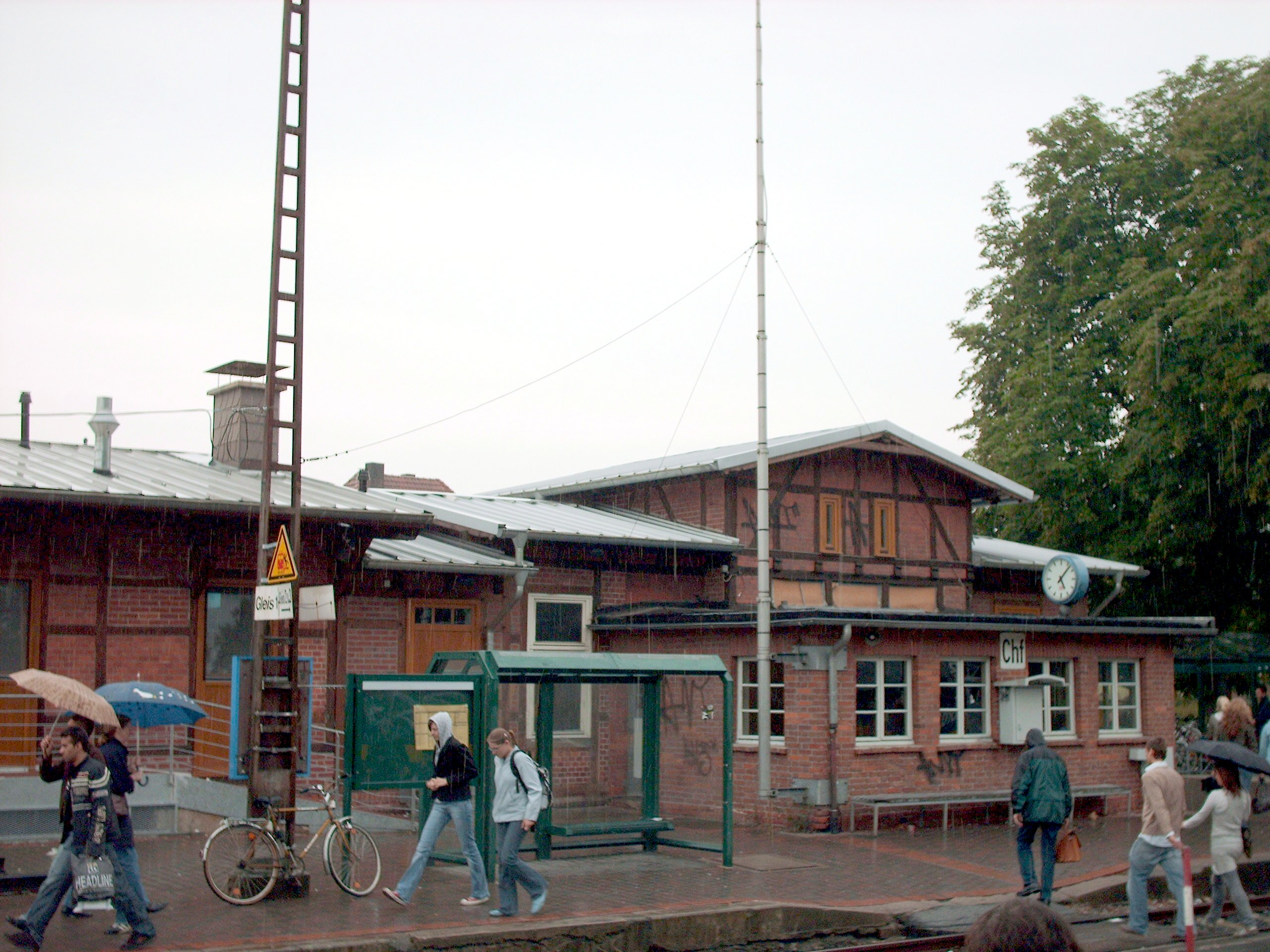 Schloß Holte station, Schloß Holte-Stukenbrock, Germany check usage